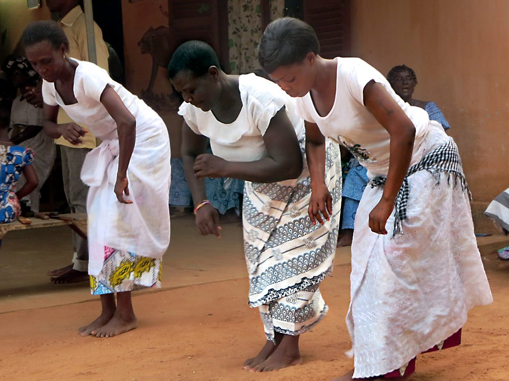 Female dancers at a voodoo ceremony in Lome, Togo.